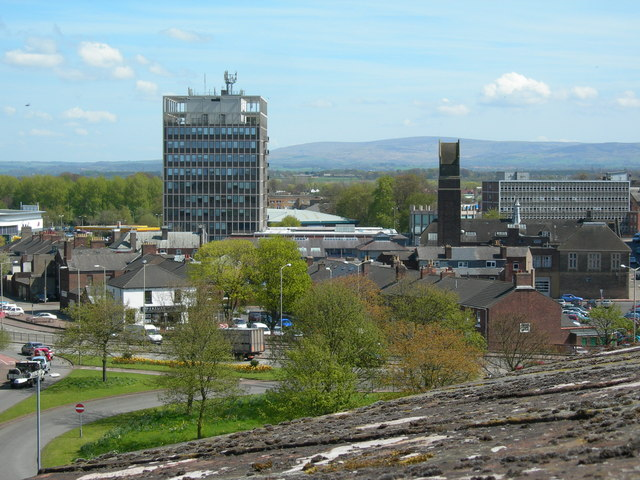 Carlisle city centre in Carlisle, Cumbria, England. The office block belongs to Carlisle City Council.